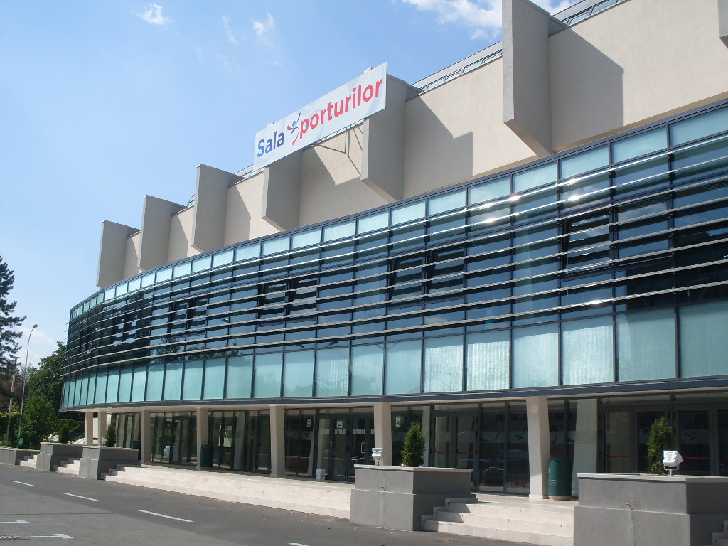 Sala Sporturilor, Braşov, Romania.